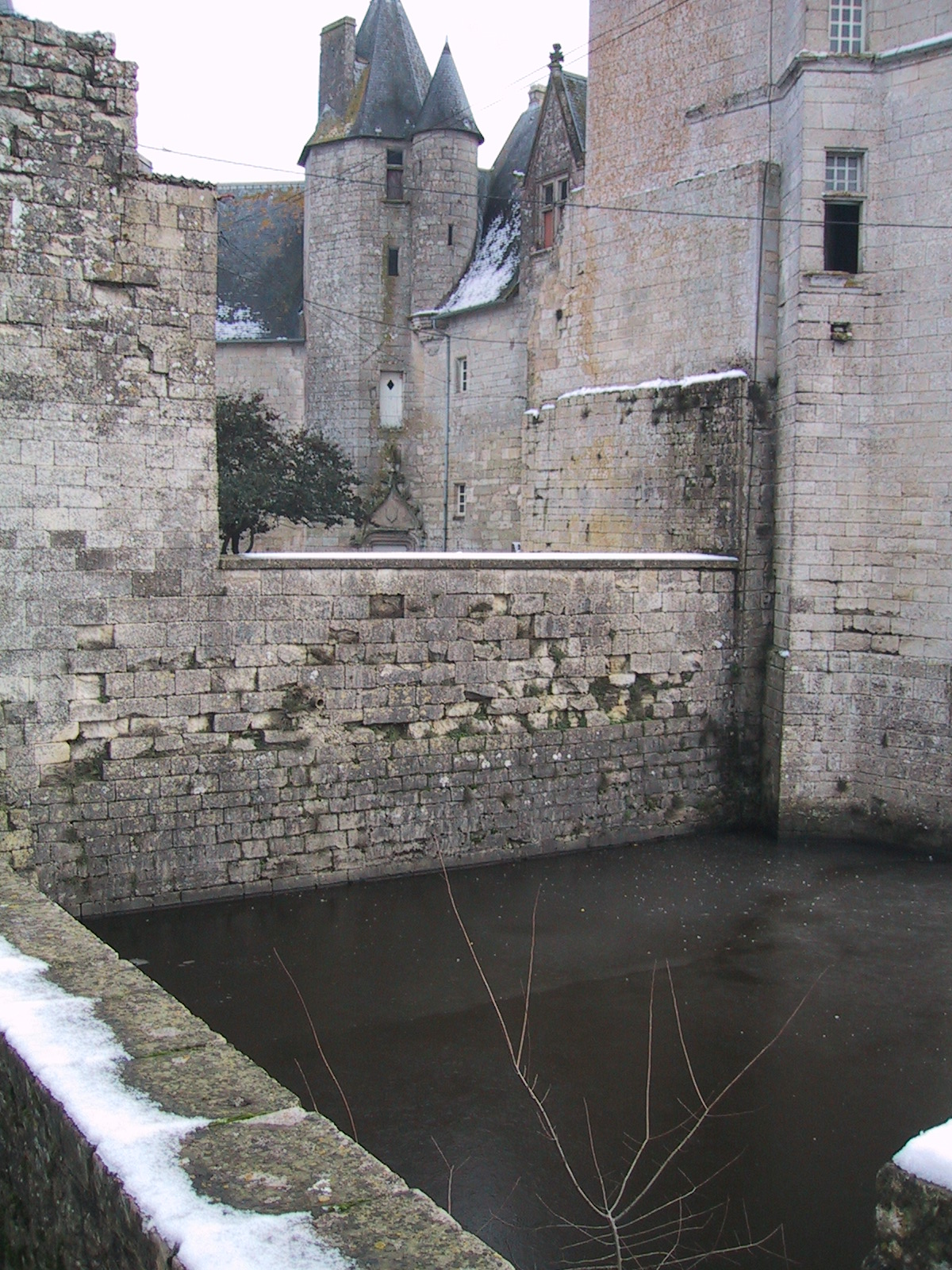 Cherveux castle, entry of the castle